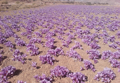 saffron flowers in early morning- Iran.khorasan